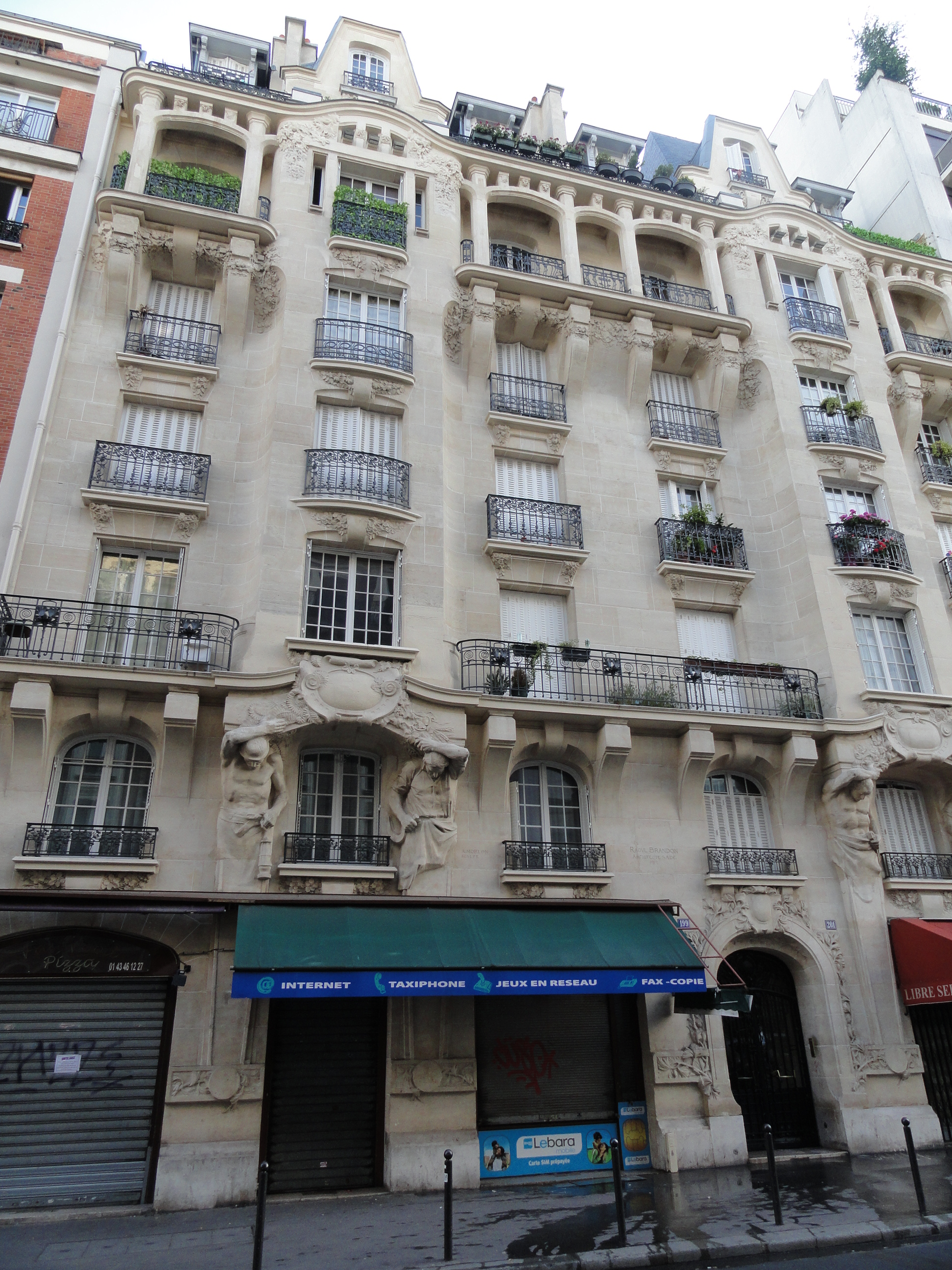 199-201 rue de Charenton in Paris (building of 1911)